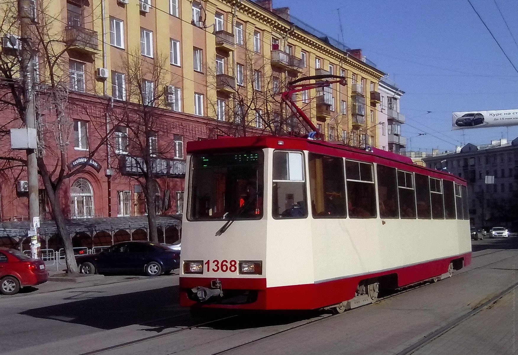 Modernized tram 71-605 at Tsvilling Street in Chelyabinsk, Russia